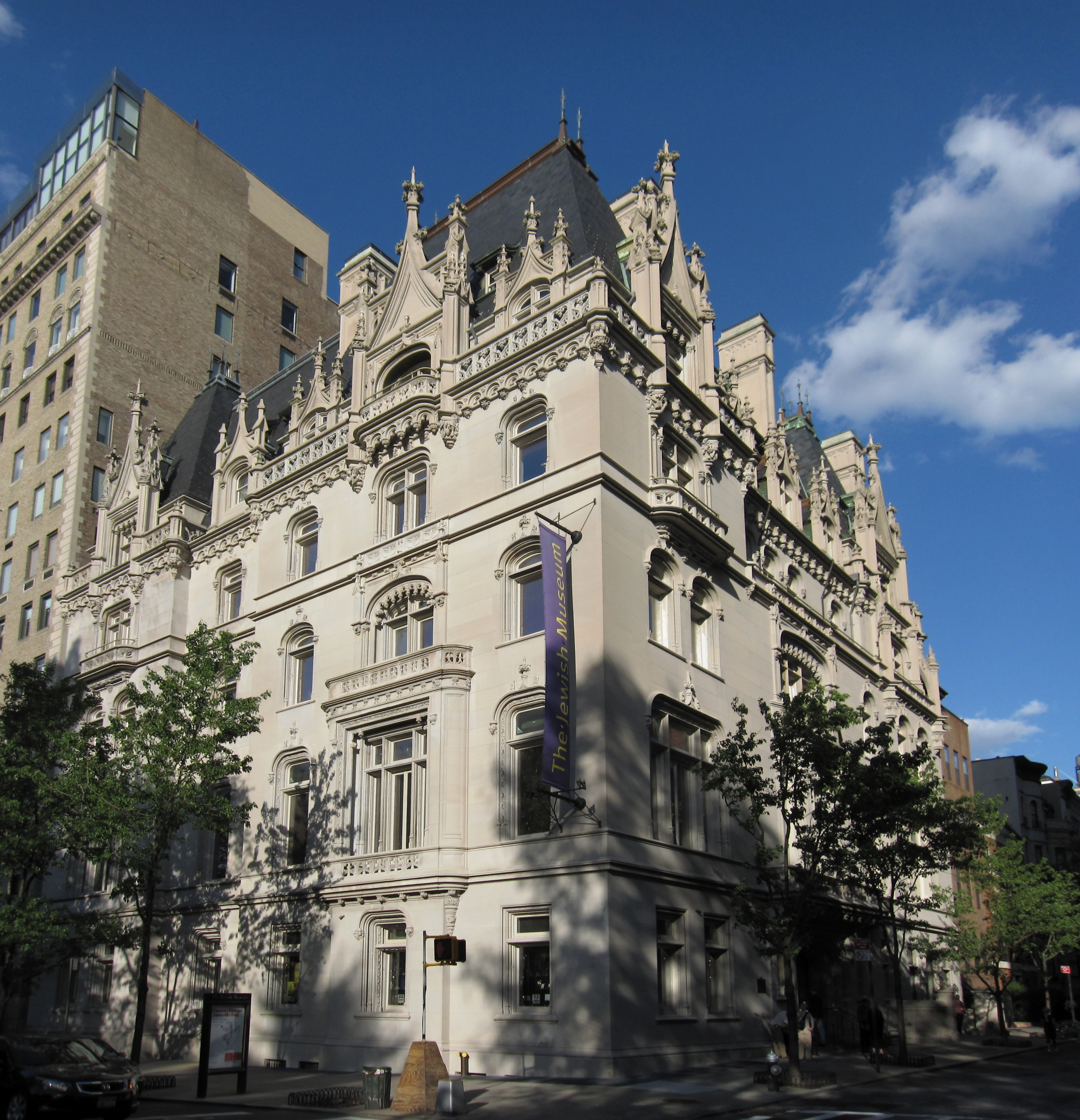 Felix Warburg Mansion